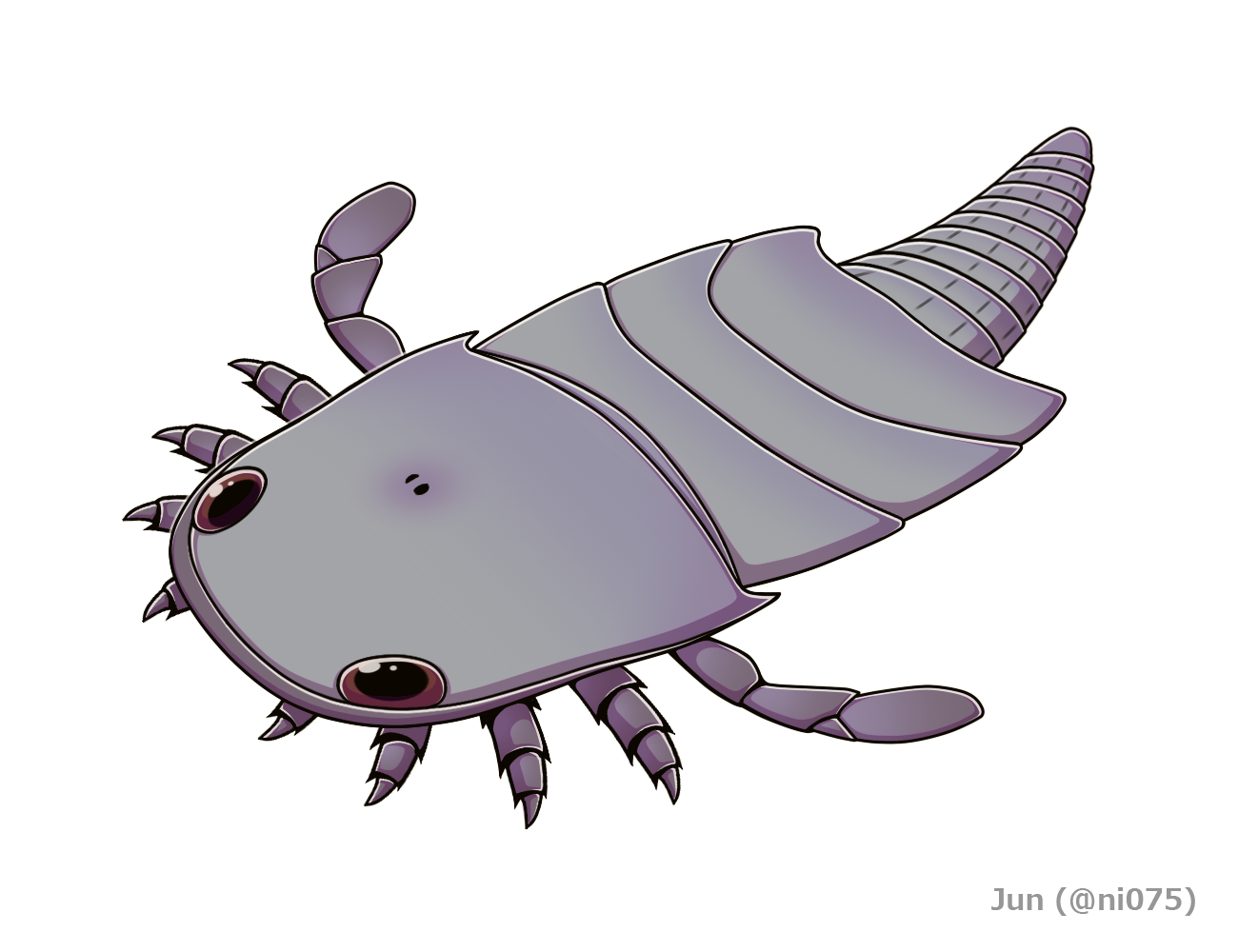 Reconstruction of Diploaspis casteri, a devonian chasmataspidid. The reconstruction of the prosomal appendage pairs II to V in subequal morphology is conjectural.